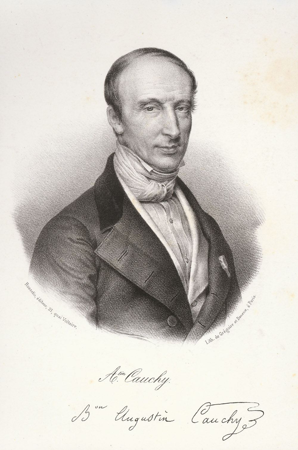 Portrait of Augustin Louis Cauchy